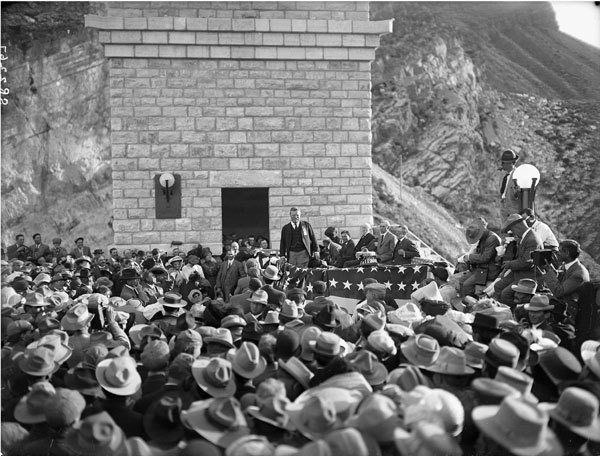 Dedication ceremonies of Roosevelt Dam, Col. Roosevelt speaking.